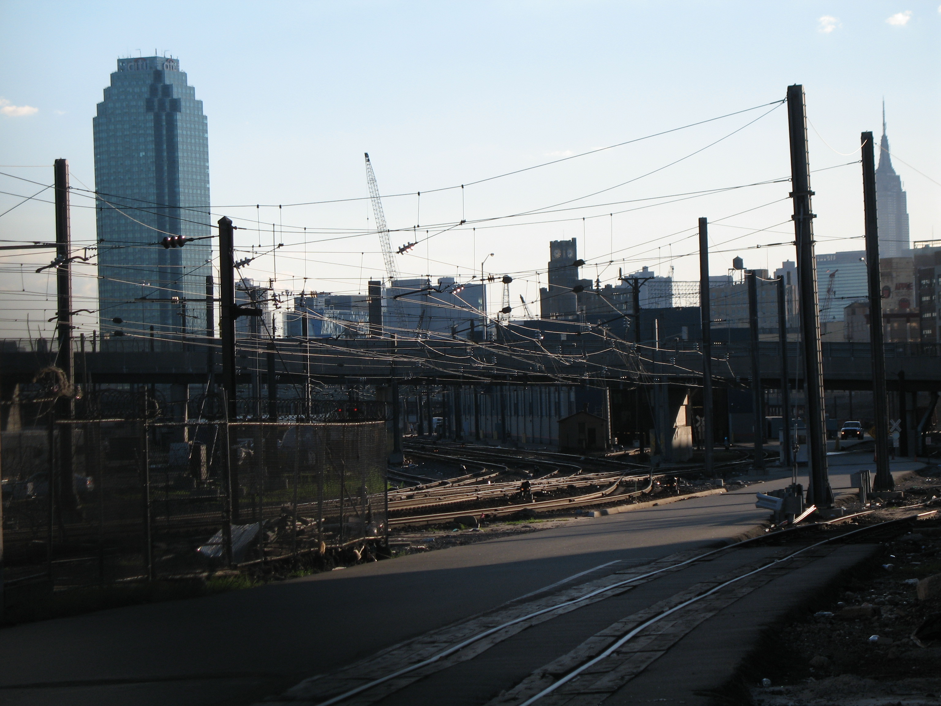 Sunnyside Yards from the east. Photo by poster in July 2007.